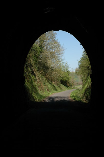 The Landcross Tunnel on the Tarka Trail View out of the northern end of the Landcross Tunnel. The former railway line is the route of the Tarka Trail and is an excellent cycleway.